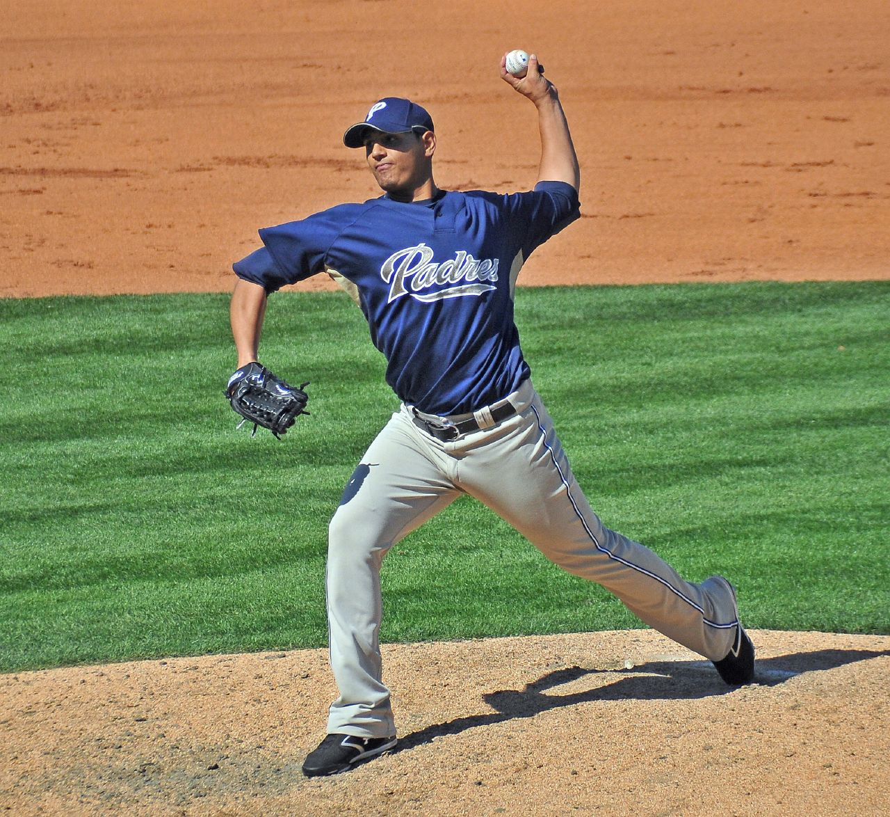 Wilfredo Ledezma of the San Diego Padres on the mound in 2008 Spring Training.